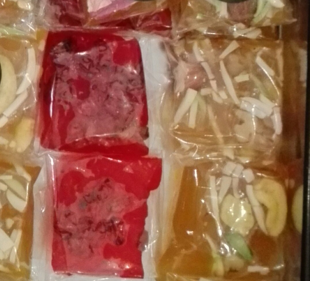 Masqati is an Iranian pastry. In this picture there are two kinds of masqati. The red ones contain rose. The yellow ones contain, cashew, pistacia, and almond.